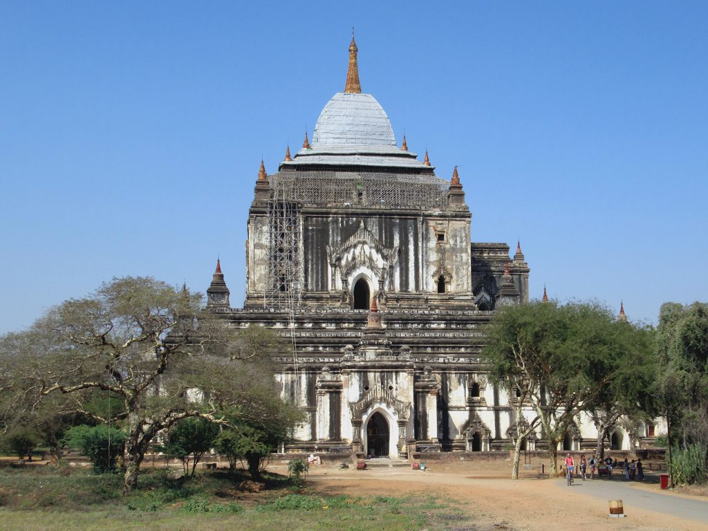 Thatbyinnyu (1144) is the tallest pagoda in Bagan, Myanmar (Burma).